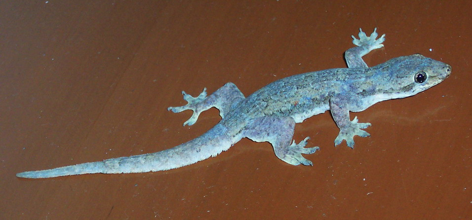 House gecko Cosymbotus platyurus, from Darmaga, Bogor, West Java, Indonesia